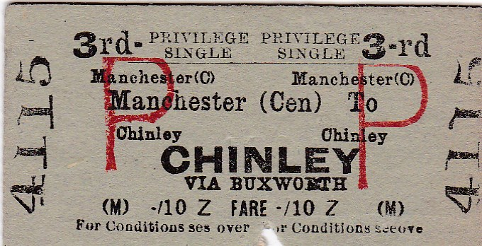 Manchester Central to Chinley via Bugsworth. Fare -/10.